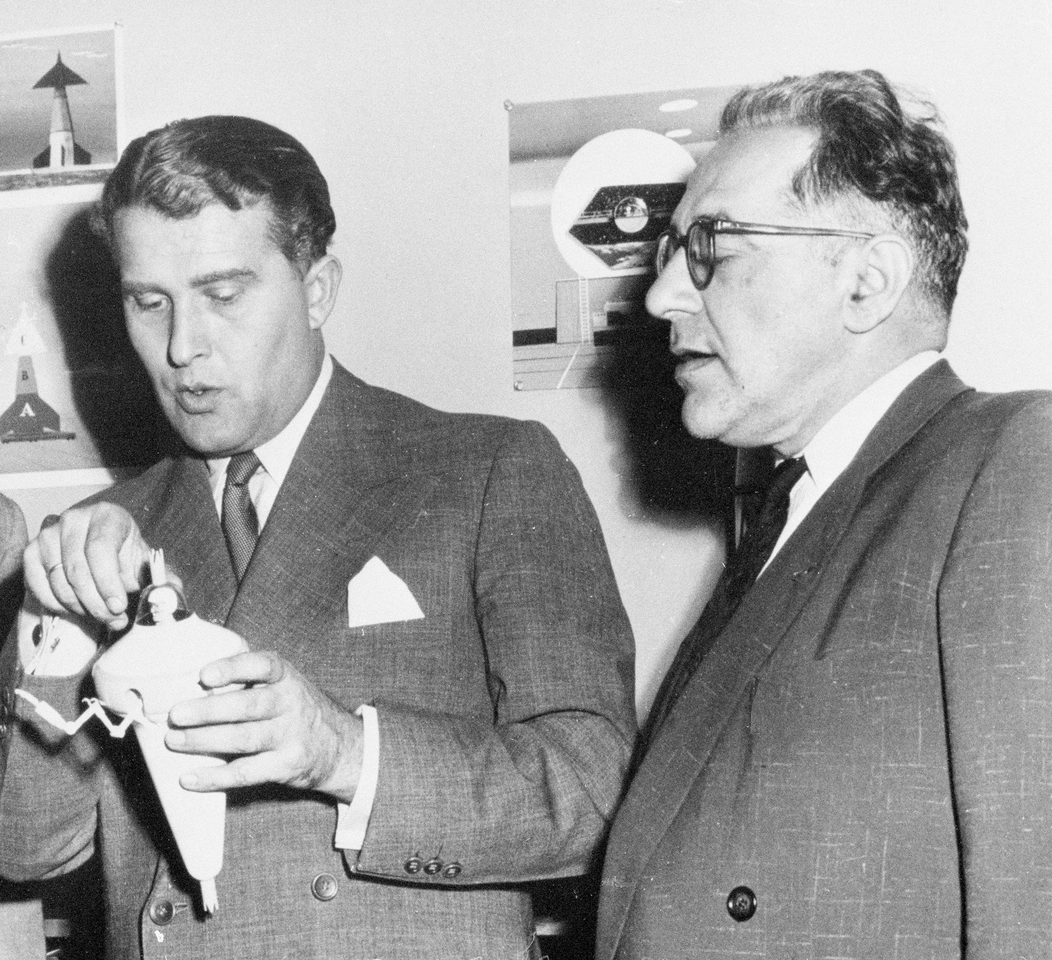 Wernher von Braun and Willy Ley.